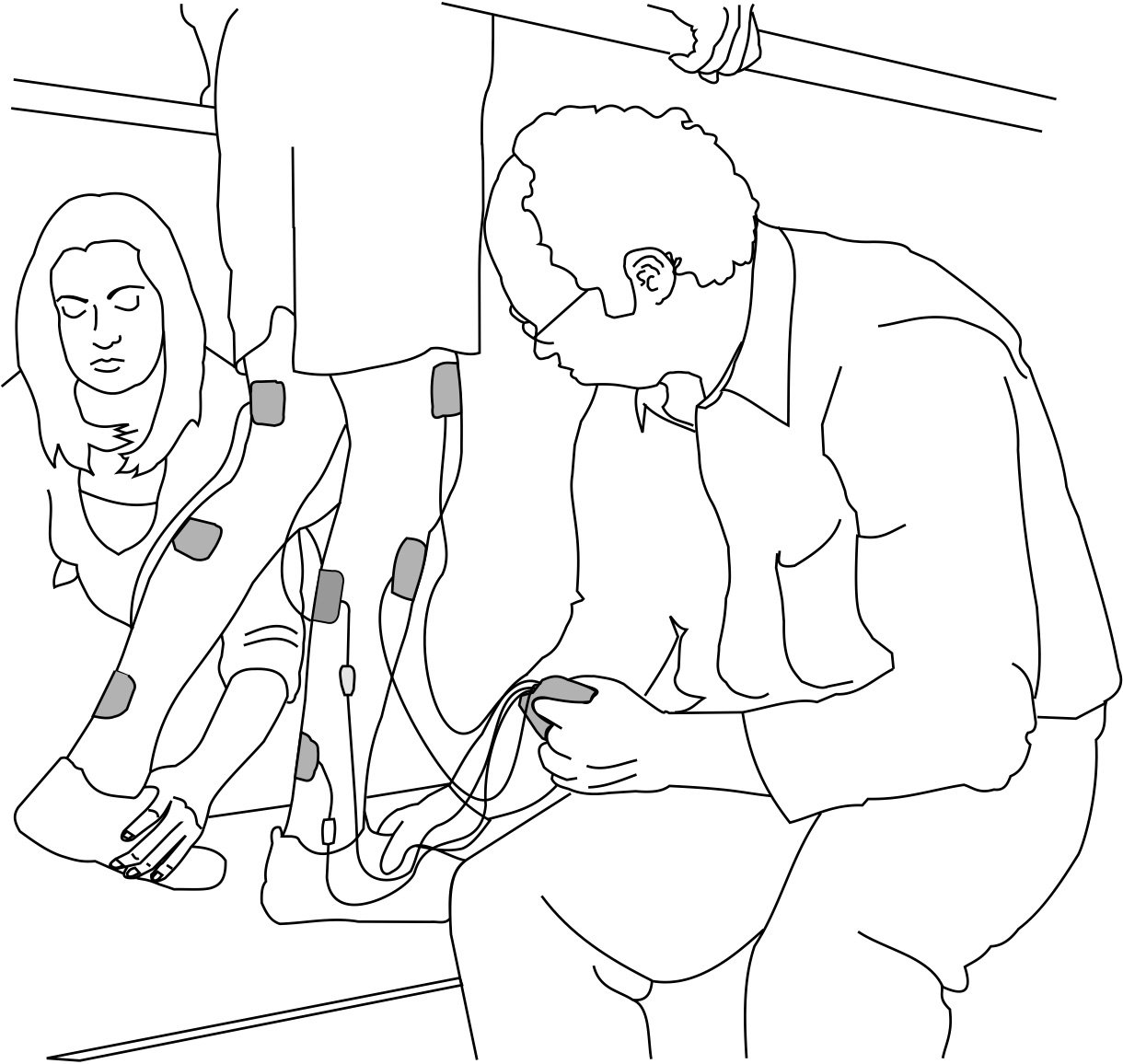 This image describes Functional Electrical Stimulation Therapy for walking. The therapy was used to help retrain incomplete spinal cord injured individuals to walk [30,31]. The therapy was delivered using two 4-channel Compex Motion stimulators [29].